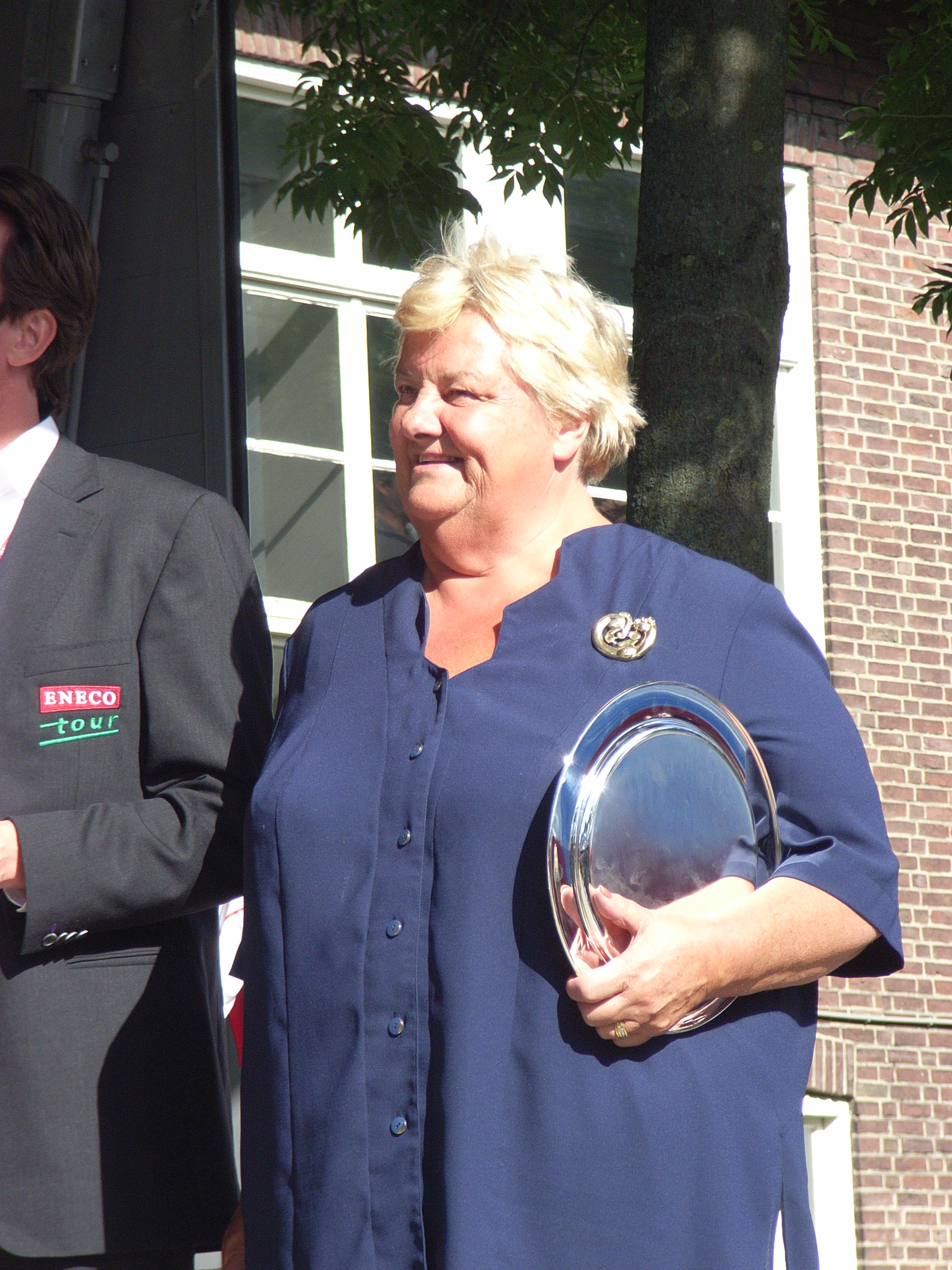 Dutch politician Erica Terpstra visits the Eneco Tour 2007 in Sittard